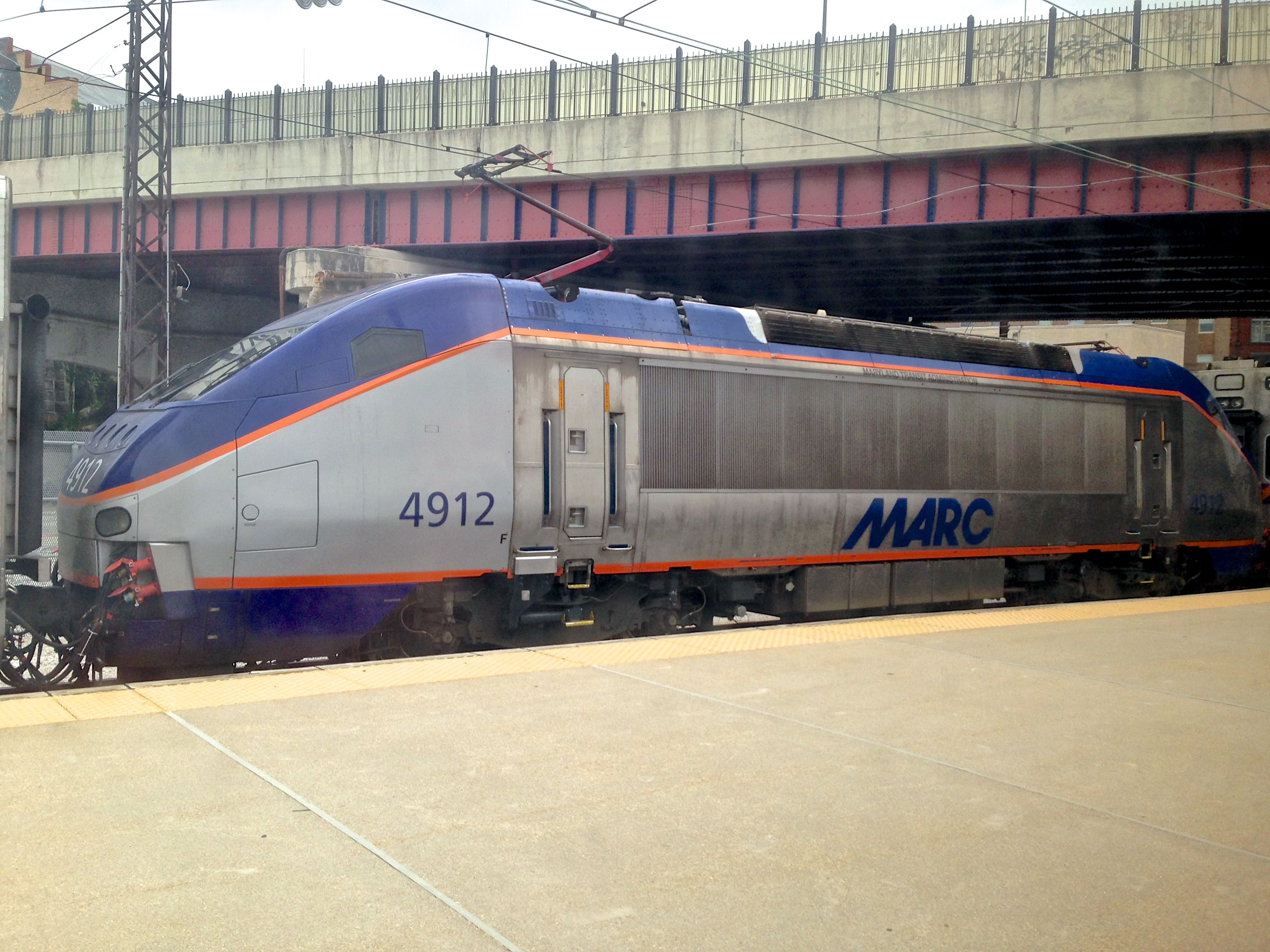 A MARC electric locomotive sighted at Penn Station, Baltimore.